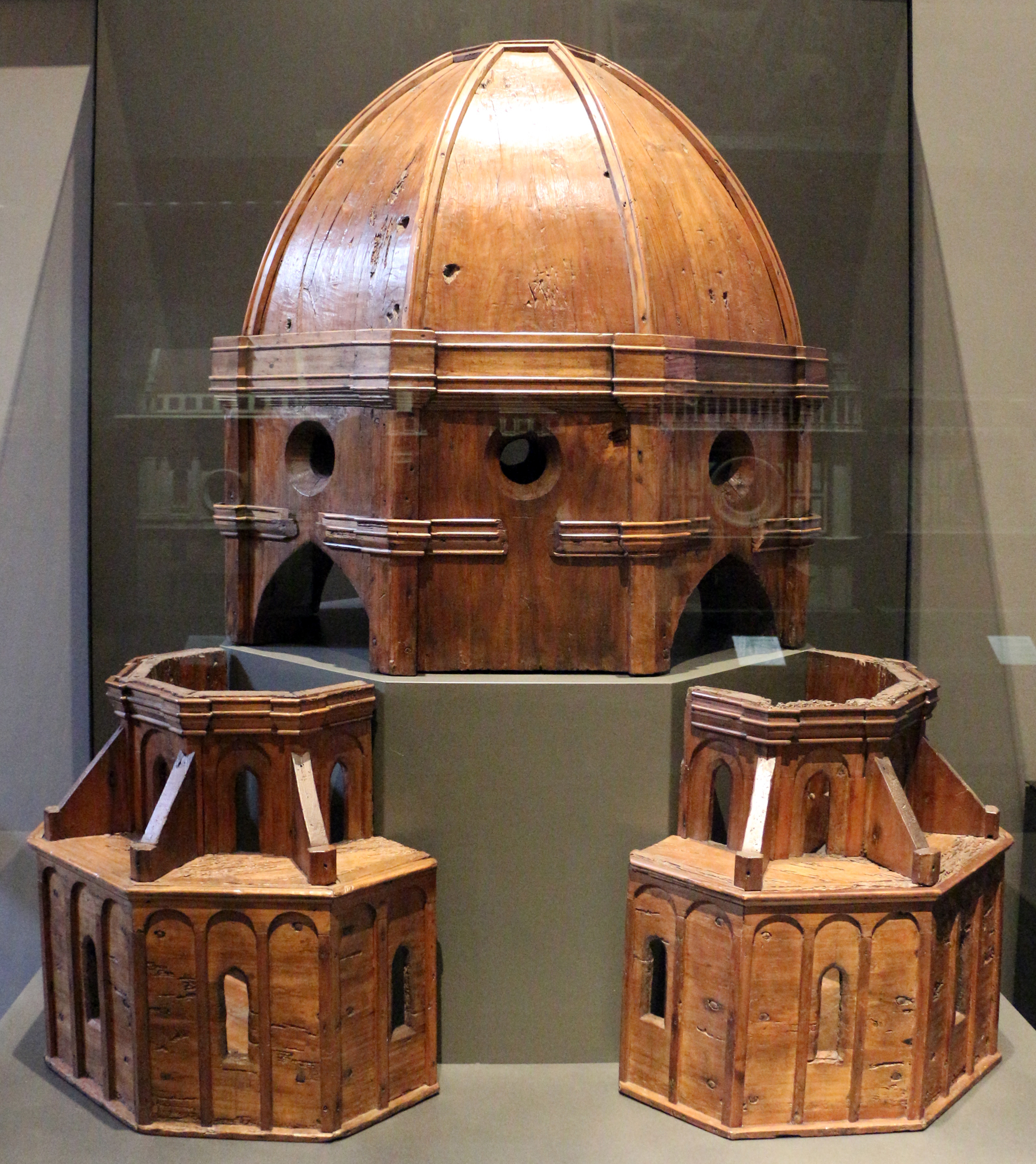 Museo dell'Opera del Duomo (Florence)